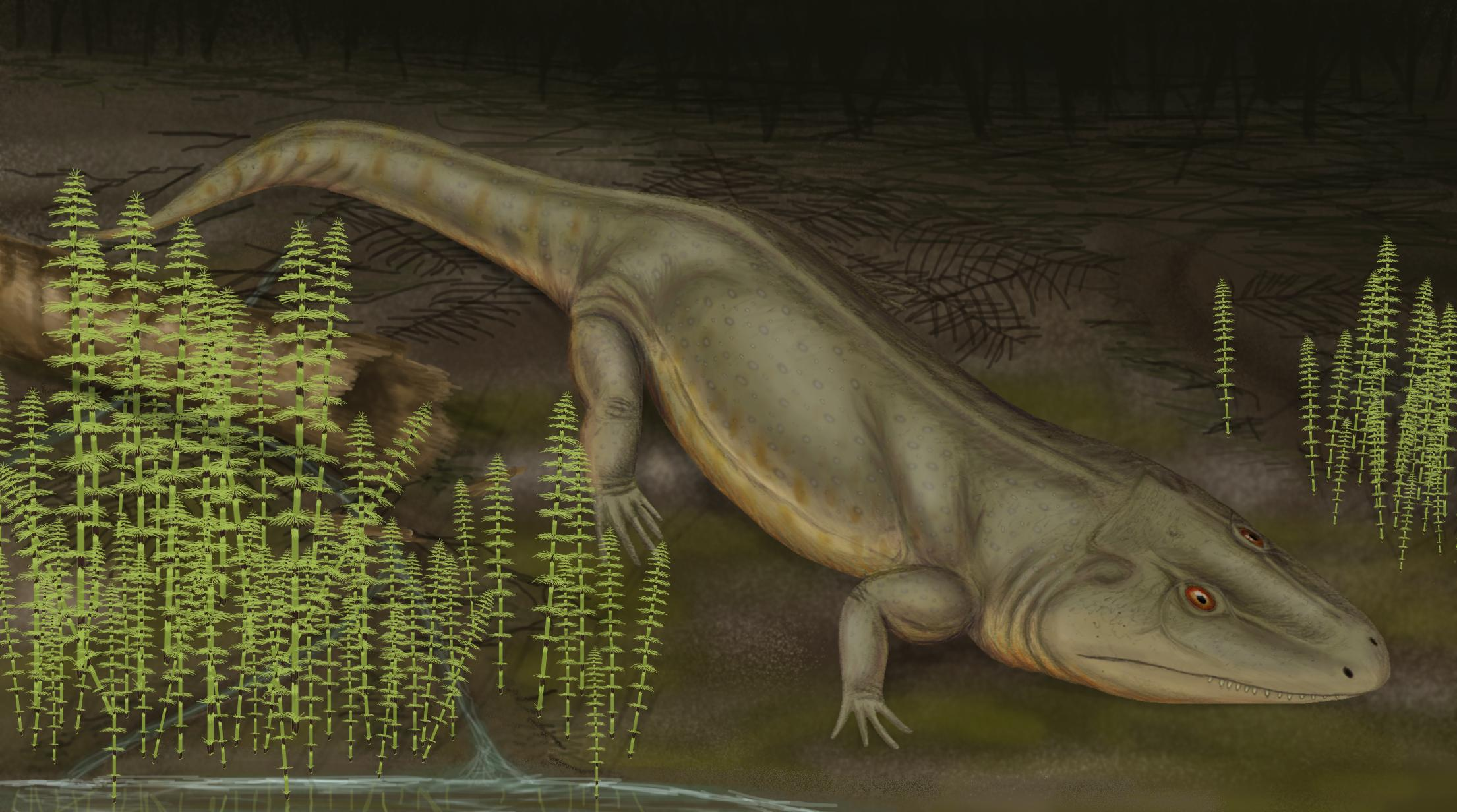 Life restoration of Cheliderpeton vranyi. Based on figures in "Revision of Cheliderpeton vranyi Fritsch , 1877 (Amphibia, Temnospondyli) from the Lower Permian of Bohemia (Czech Republic)" by R. Werneburg and J. S. Steyer Paläontologische Zeitschrift 76(1):149-162